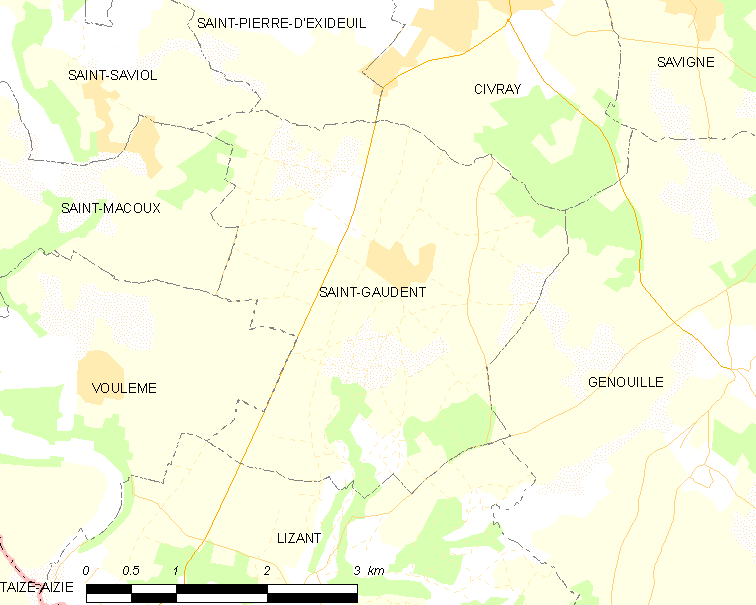 Map of French municipality Saint-Gaudent